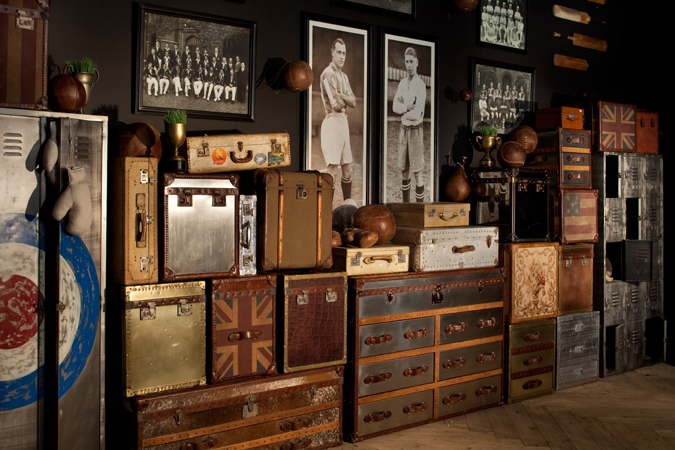 Trunks are a mainstay of the Timothy Oulton collection.